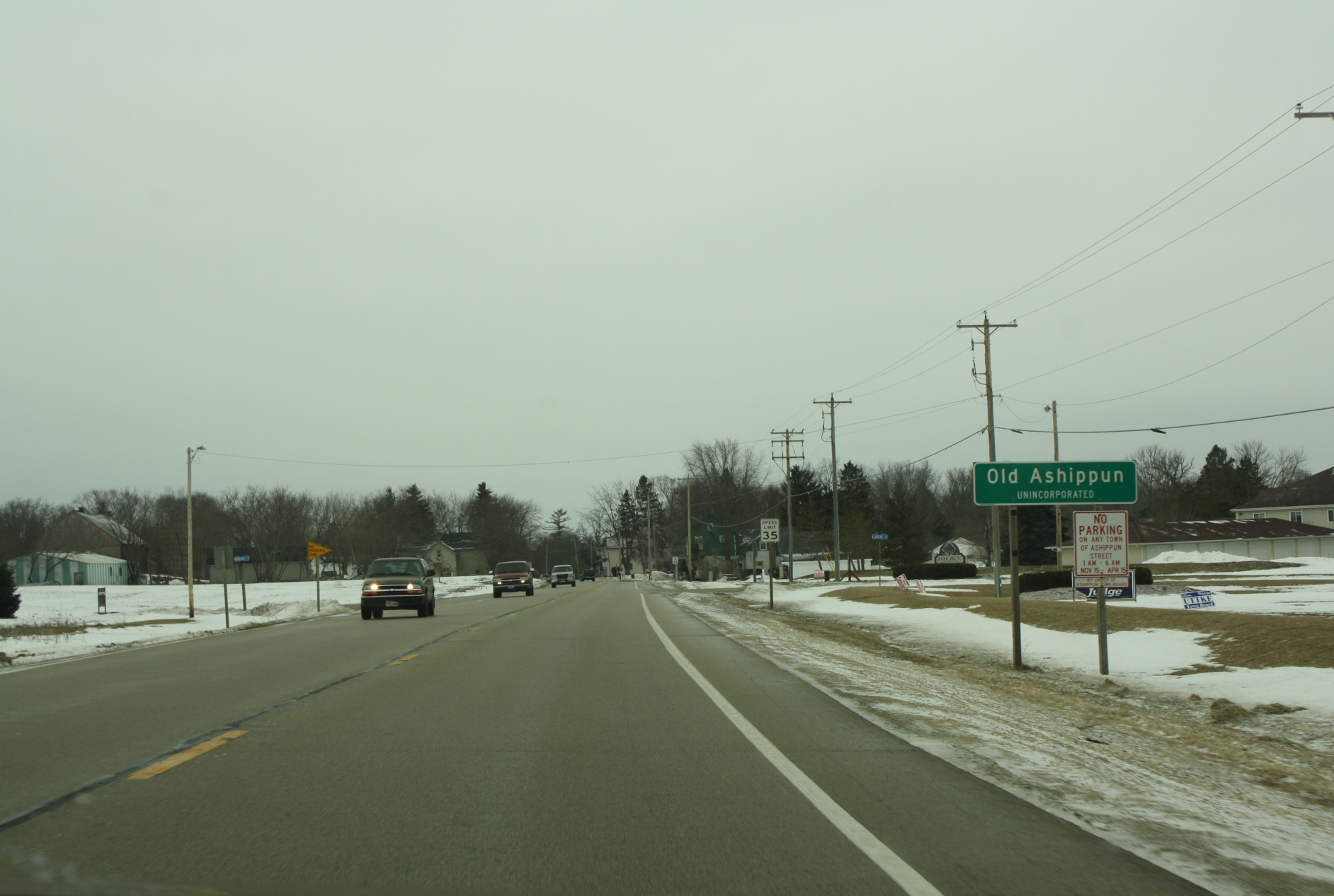 The sign for Ashippun, Wisconsin on Wisconsin Highway 67.